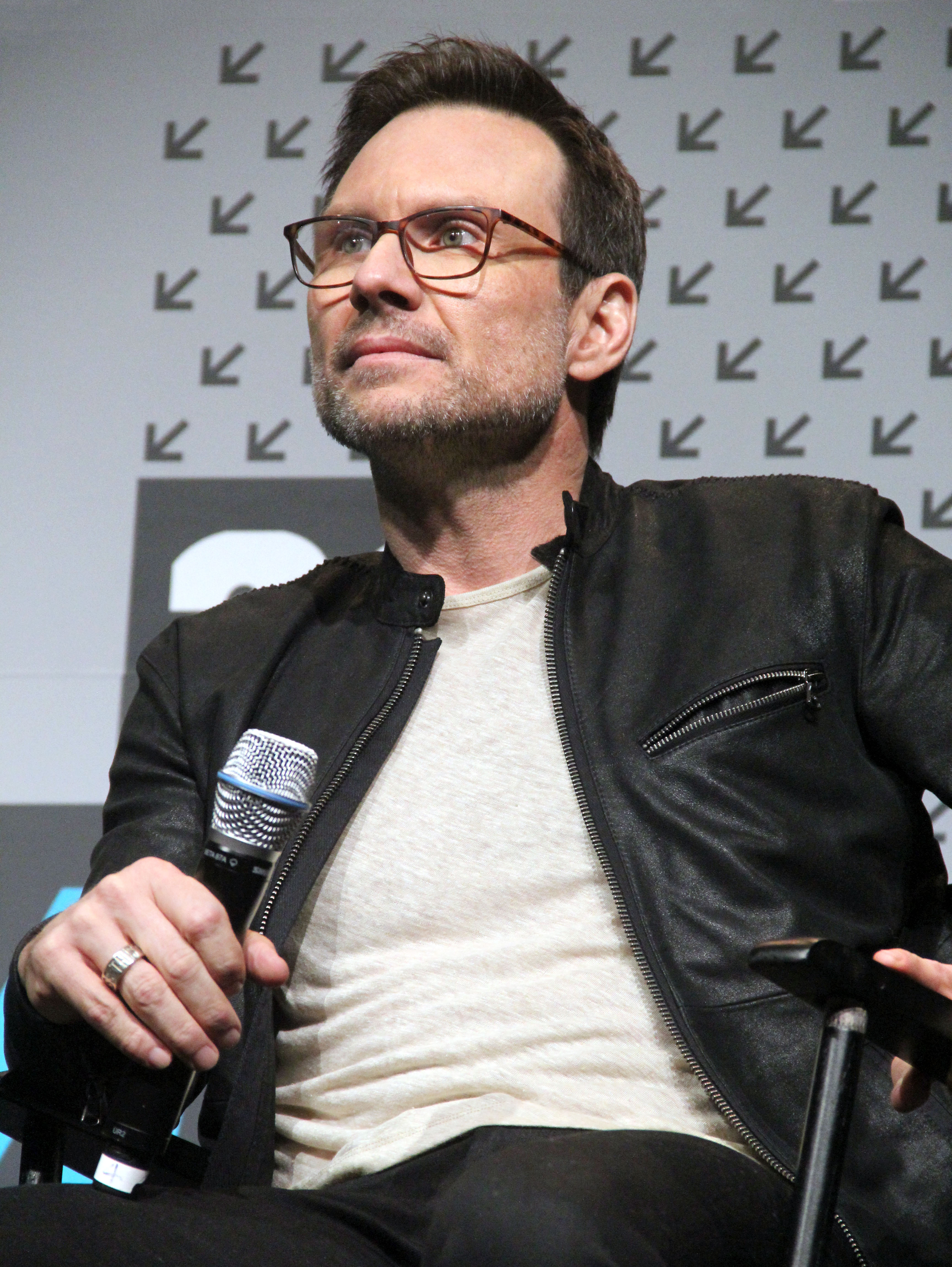 Christian Slater during a panel about Mr. Robot (TV series) at SXSW 2016.